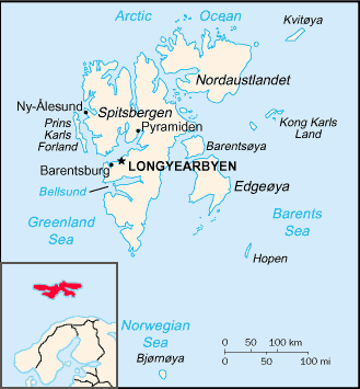 Combines PD images Image:LocationSvalbard small.png with Image:Sv-map.png. All alterations made during this process released by the creator, User:TheGrappler.